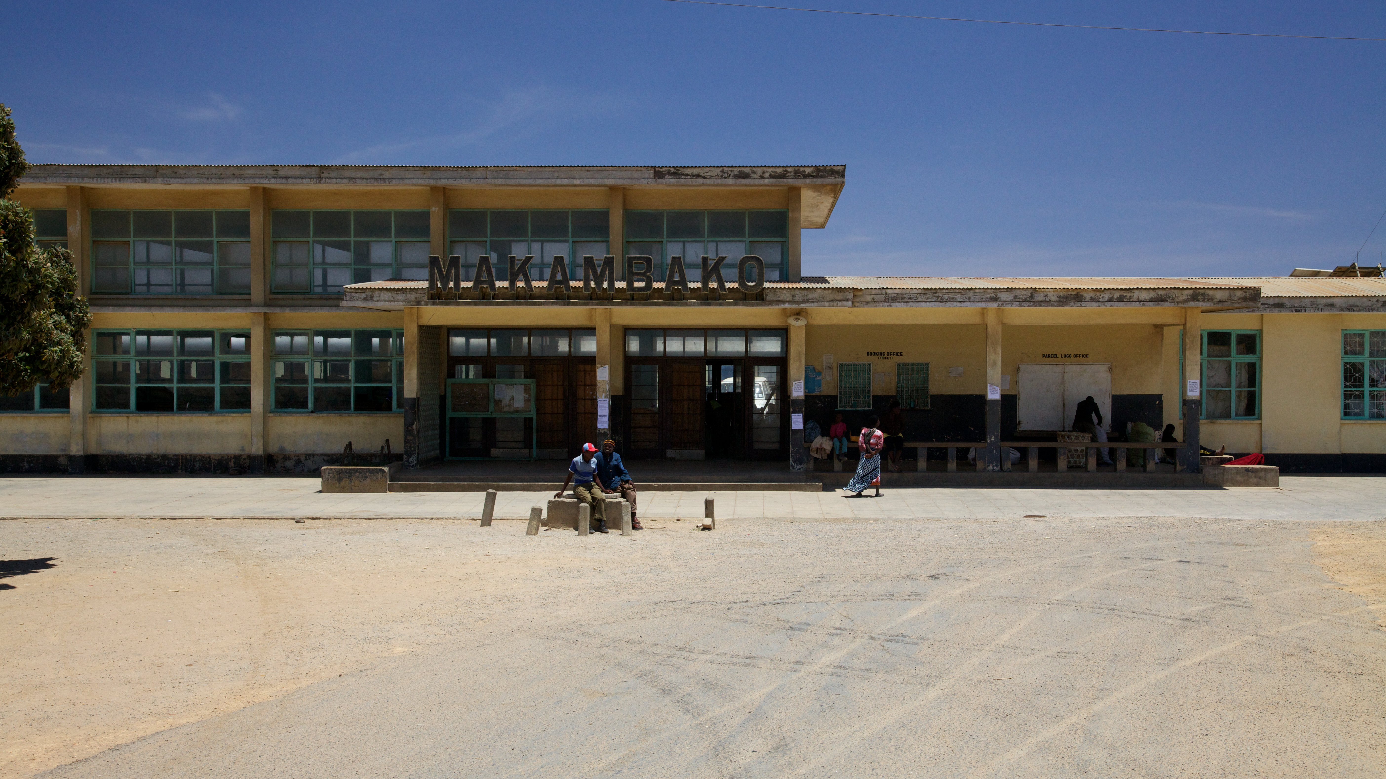 at the Makambako Railway Station in Tanzania. This was one of the major stations along the Tazara Railway - the stations were also built by the Chinese in the 1970s.